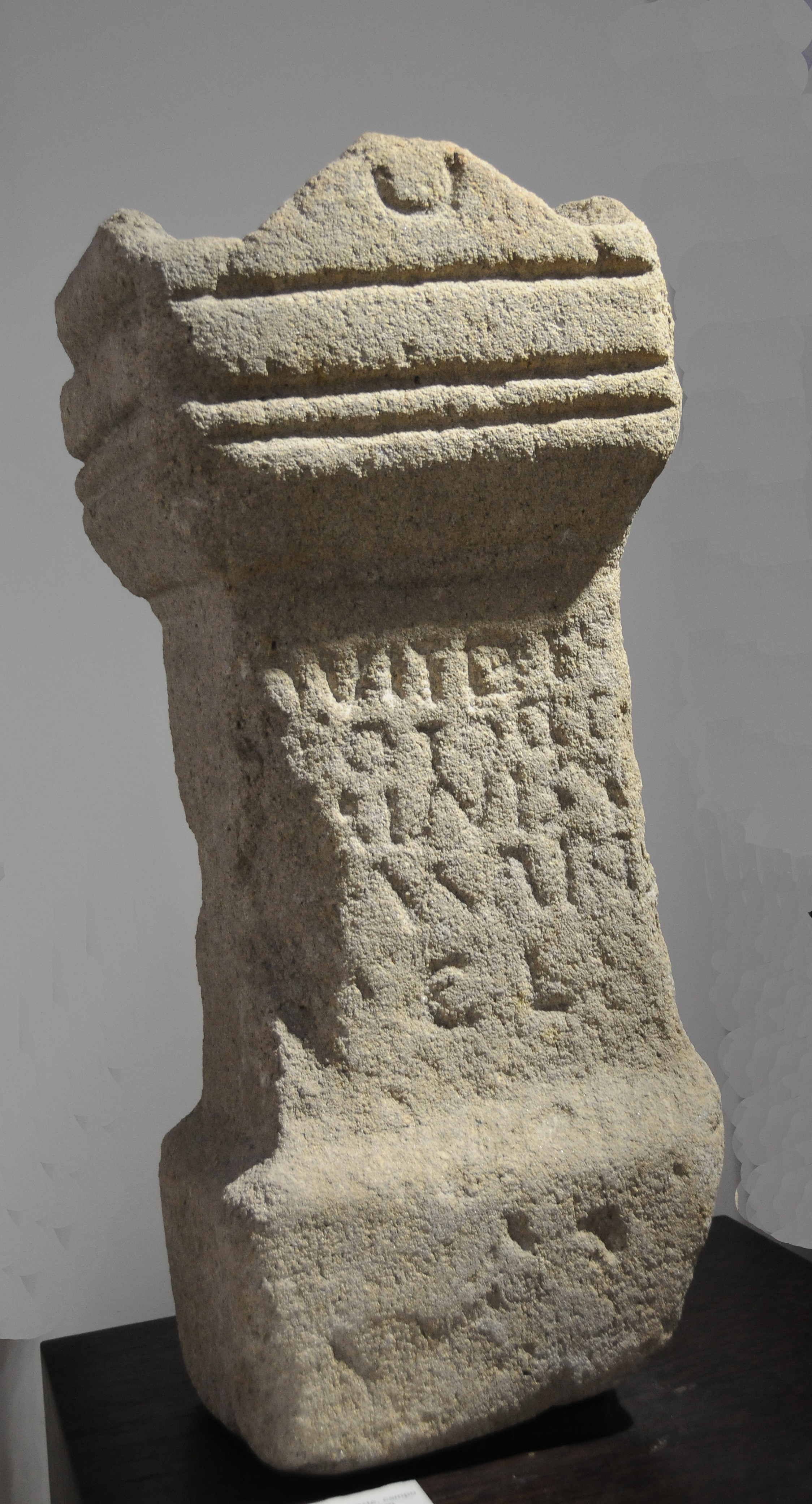 Museu Municipal de Etnografia e História da Póvoa de Varzim